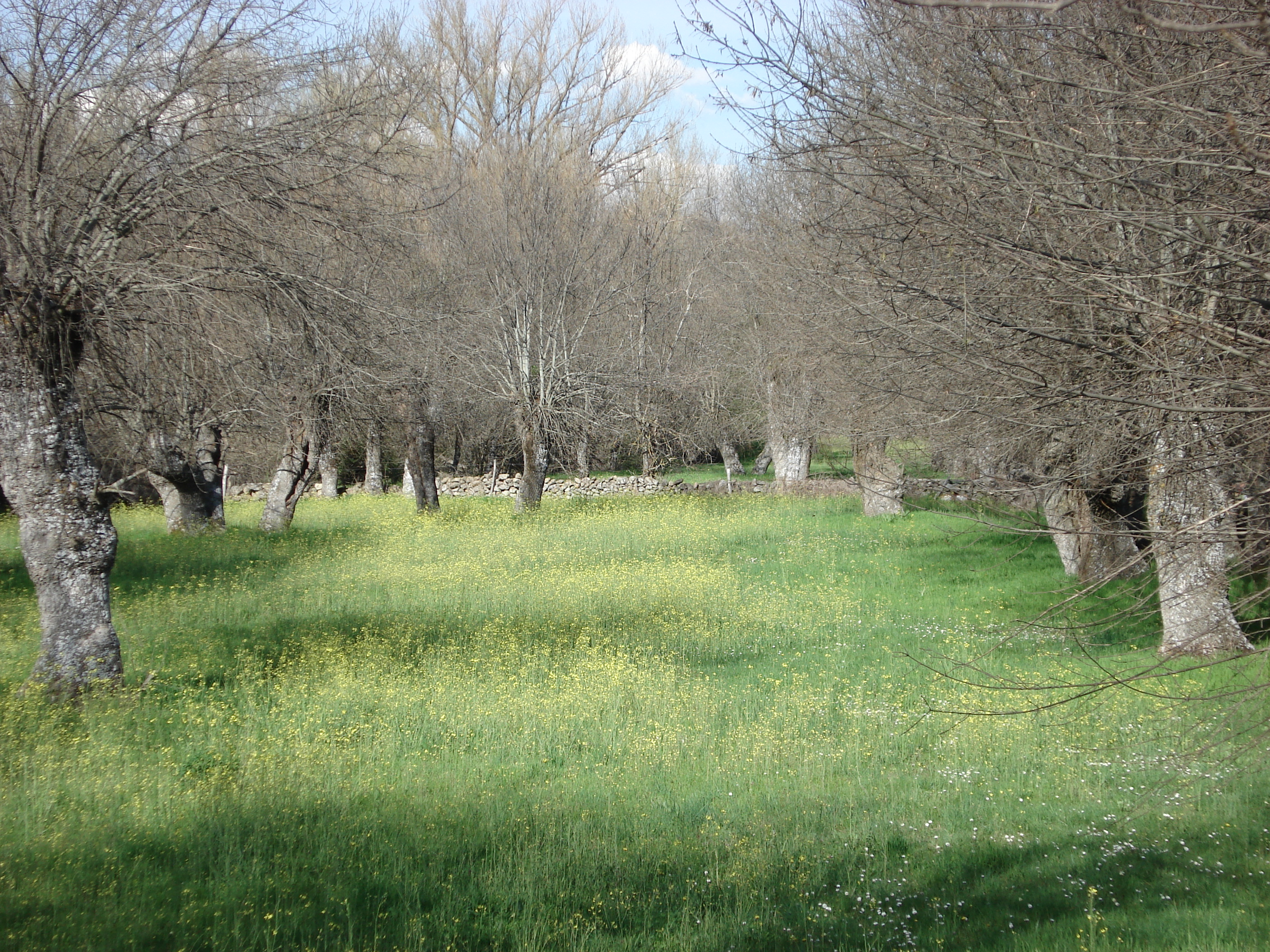 Landscape at Alameda del Valle (Madrid, Spain) near Lozoya river